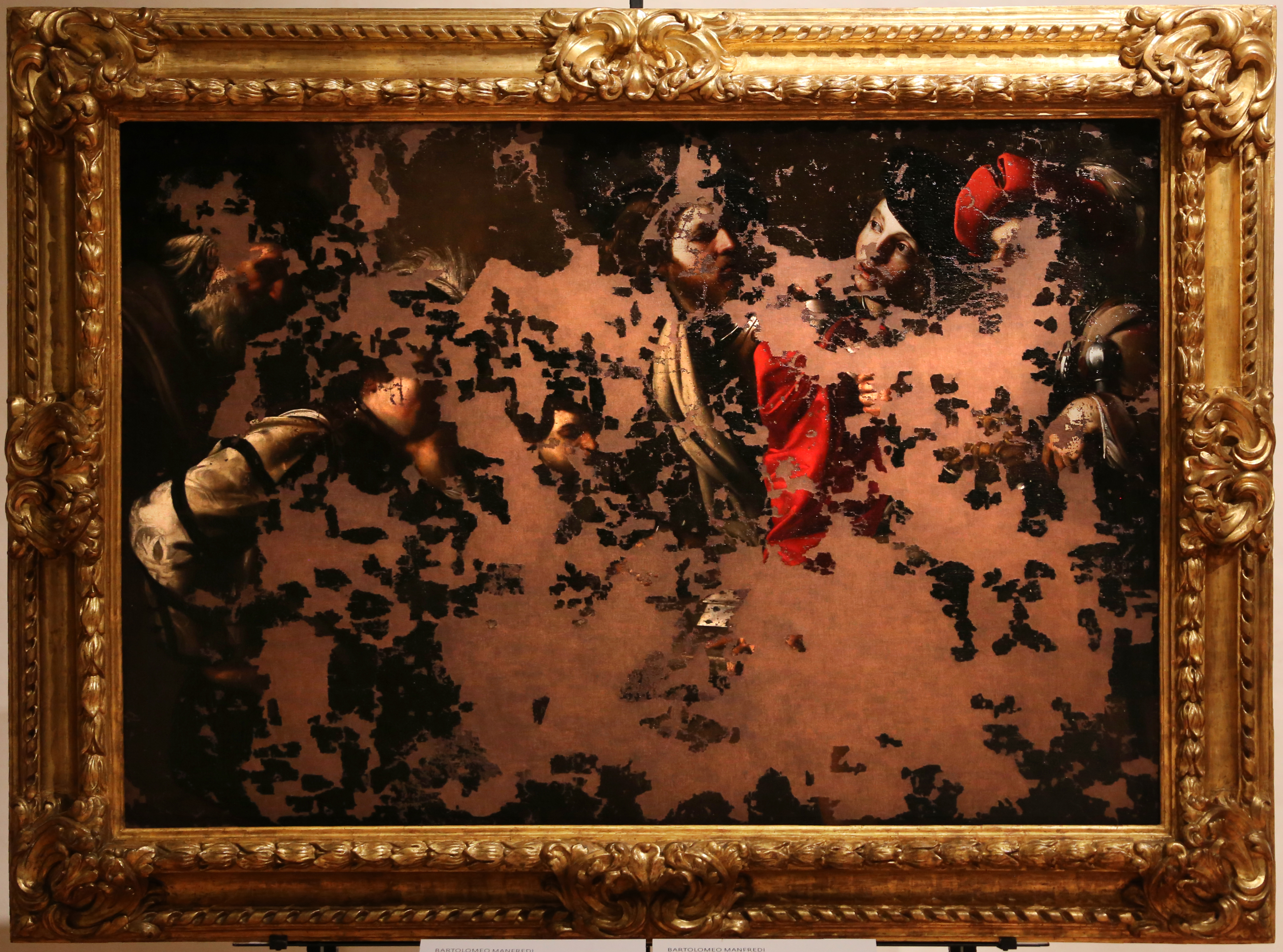 paintings in the Uffizi Gallery